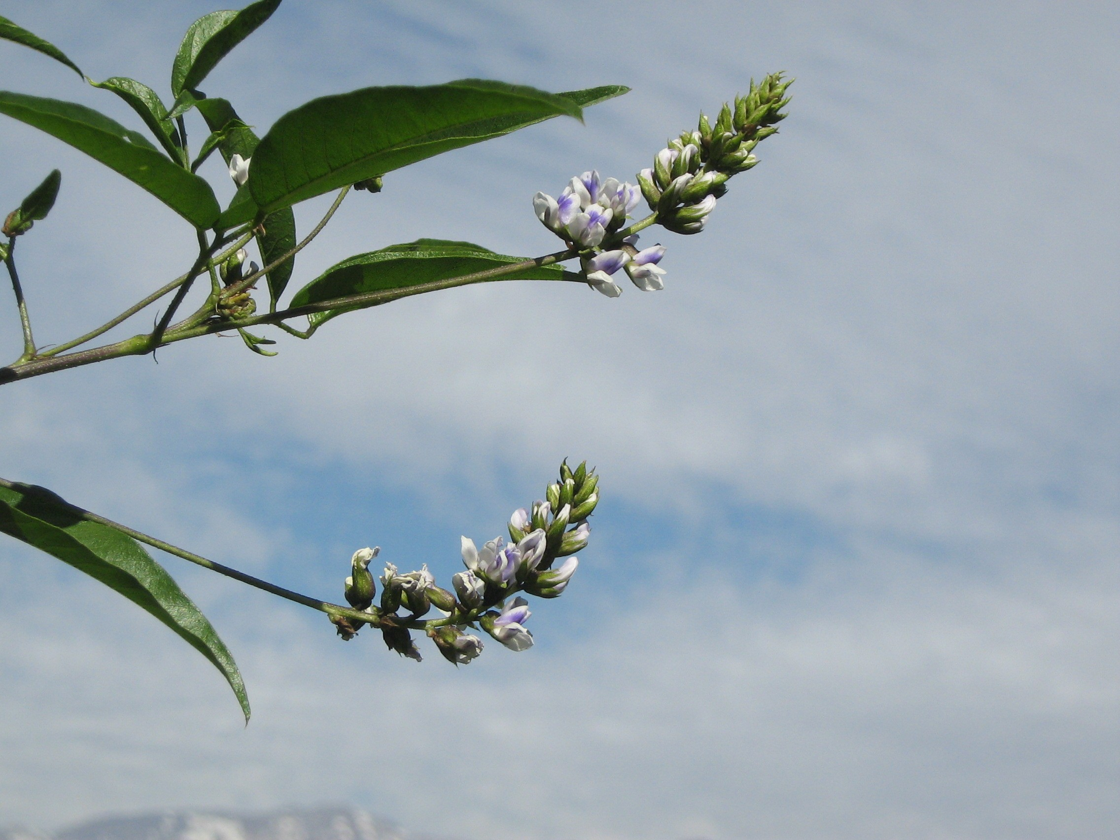 Otholobium glandulosum, vernacular name culen, Matorral Central Chile